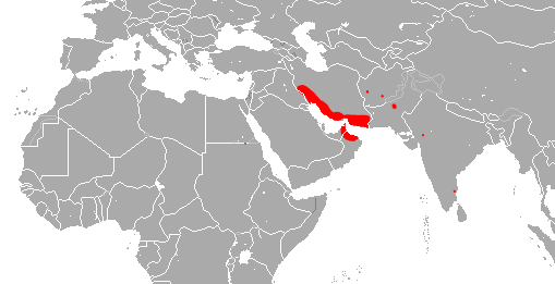 Small Mouse-tailed Bat (Rhinopoma muscatellum) range